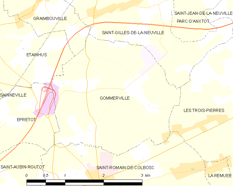 Map of French municipality Gommerville